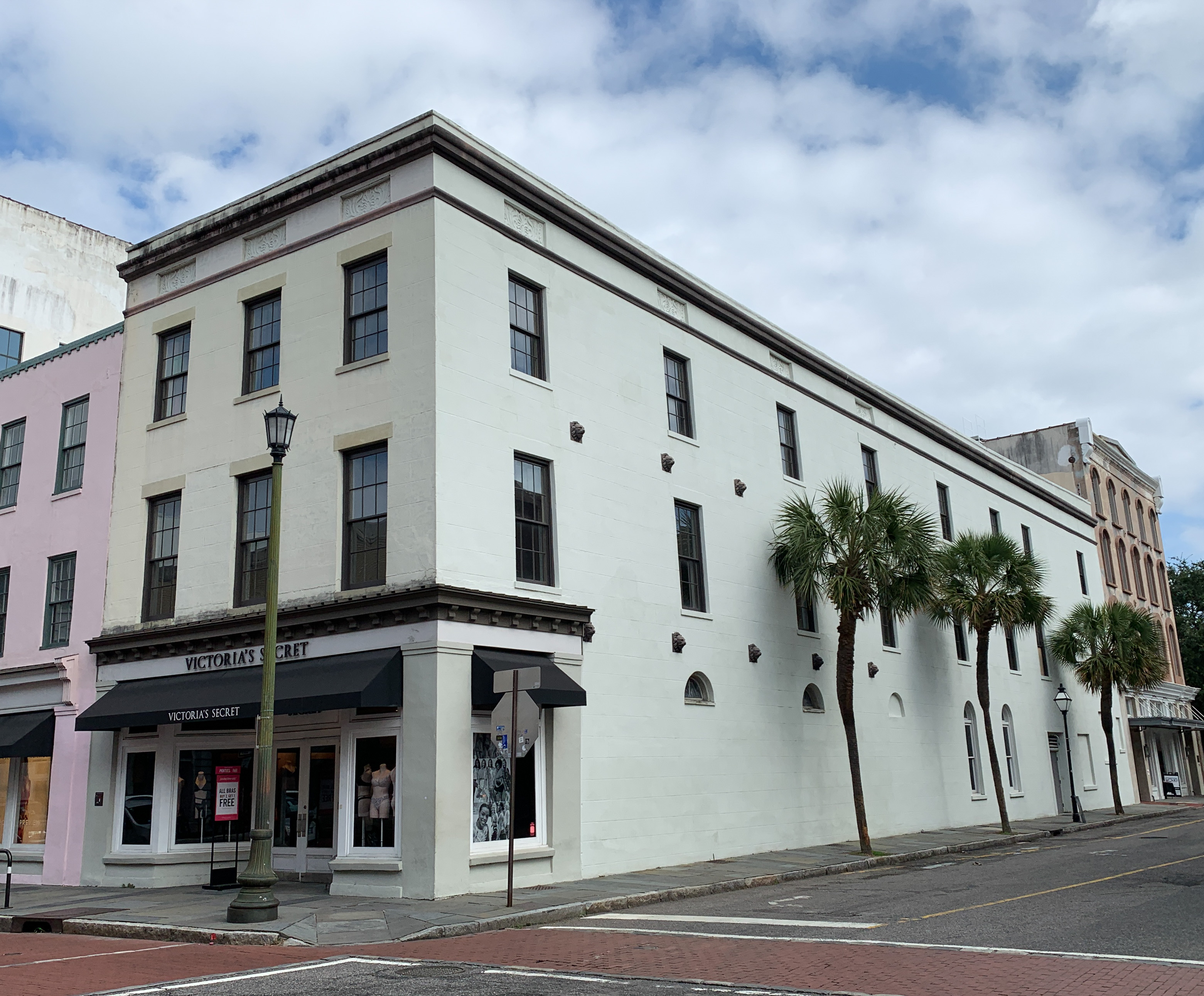 254 King Street, Charleston, South Carolina